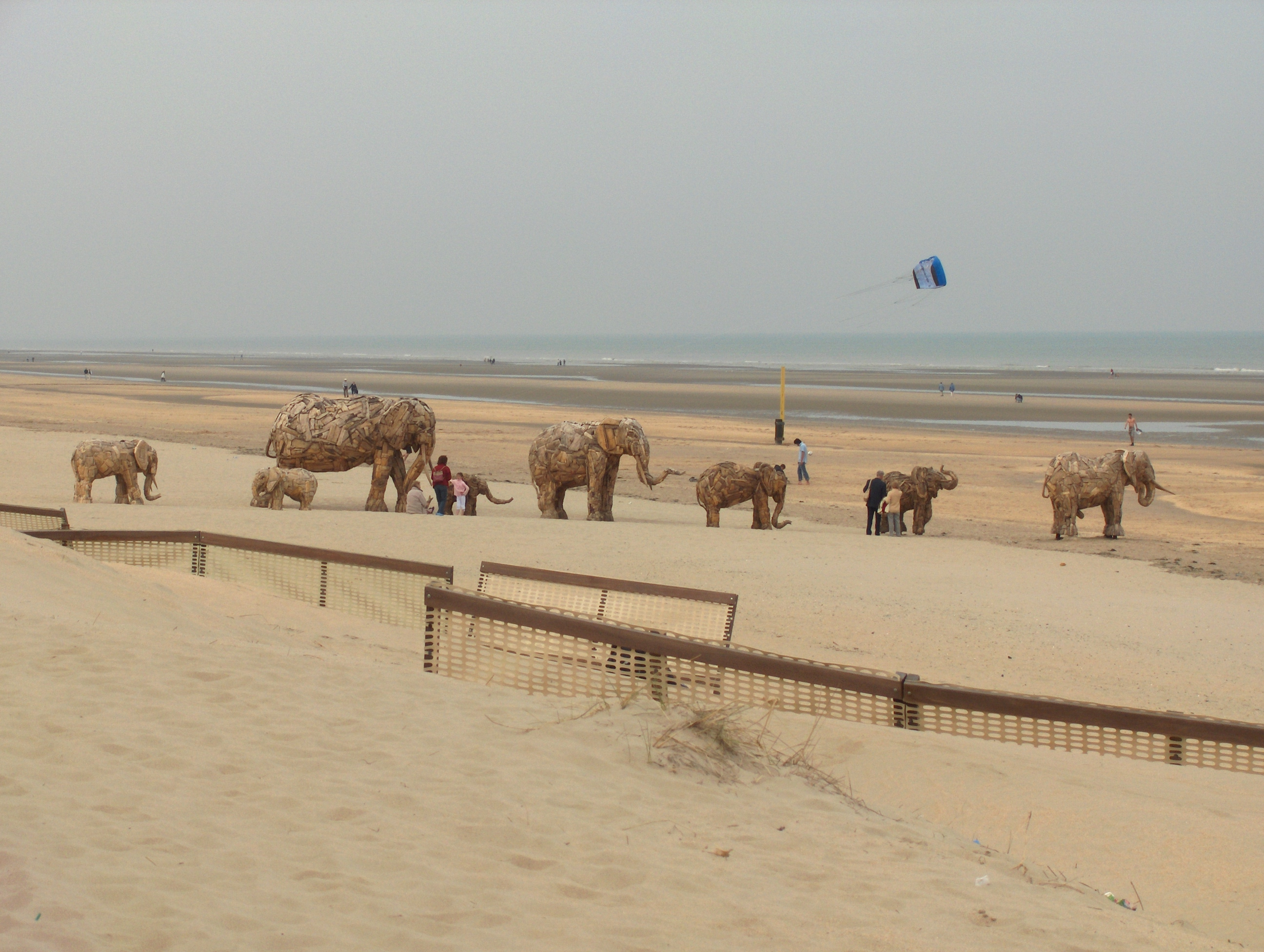 Art from Andries Botha (for the project "Beaufort"), at the coast from De Panne (Belgium)